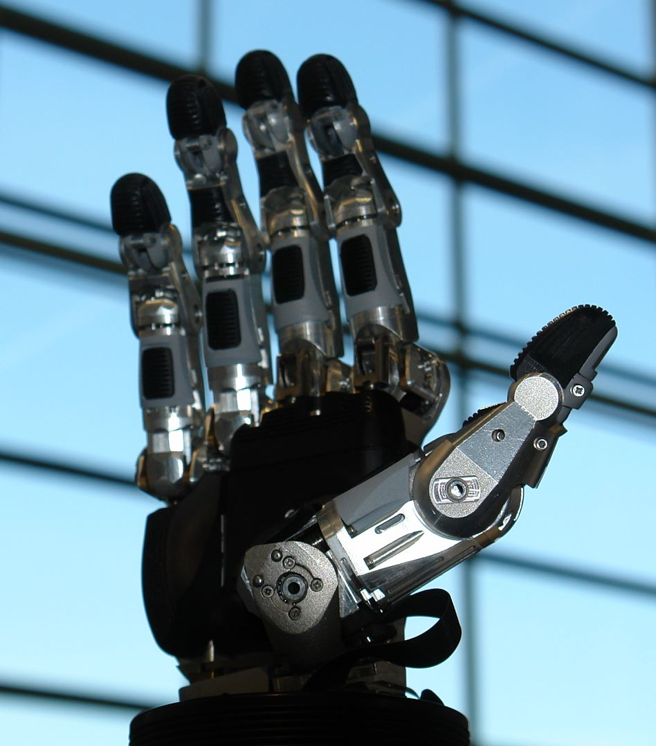 Servo-electric 5-Finger gripping hand: Schunk SVH. The commercially produced anthropo­morphic 5-finger hand grips very smililarly to the the human hand. The electronics are integrated into the wrist, which allows the 5-finger hand to simulate many human hand movements.